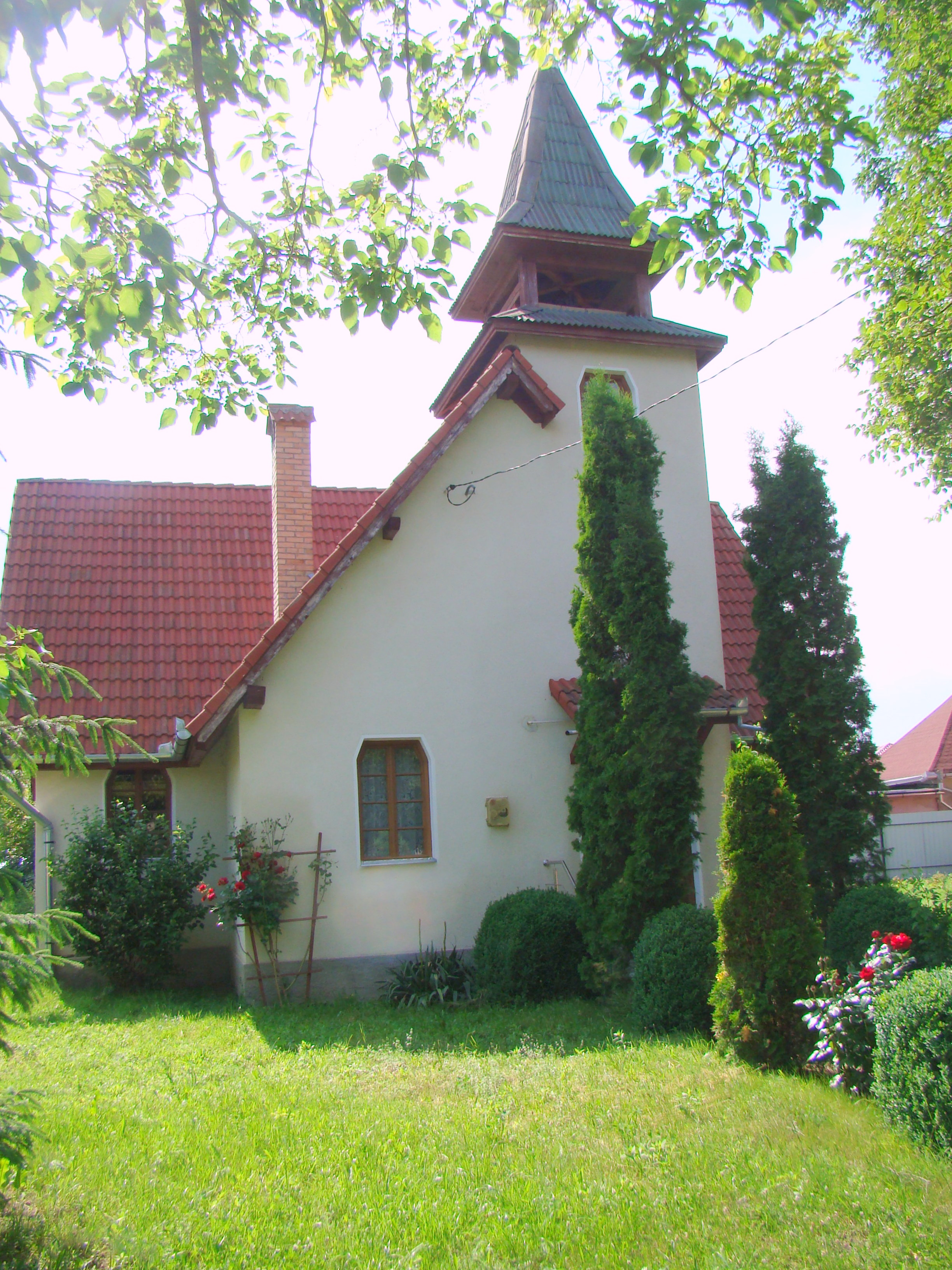 Reformed church in Batoș, Mureș county, Romania